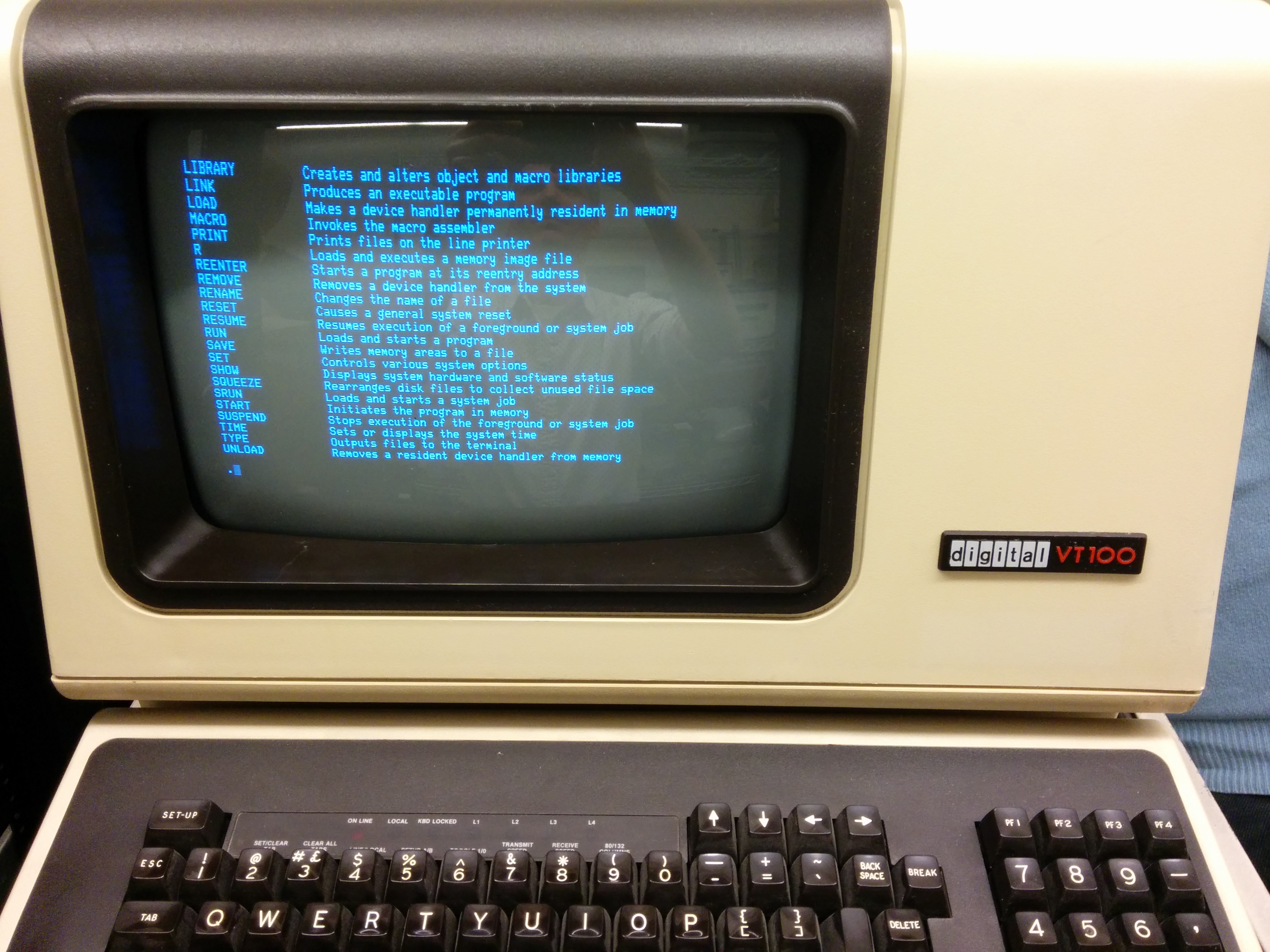 The end of the HELP command output from RT-11SJ running on a PDP-11/34 displayed on a VT100.